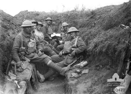 Members of the 38th Battalion, Australian Imperial Force, Guillemont, France, 29 September 1918.